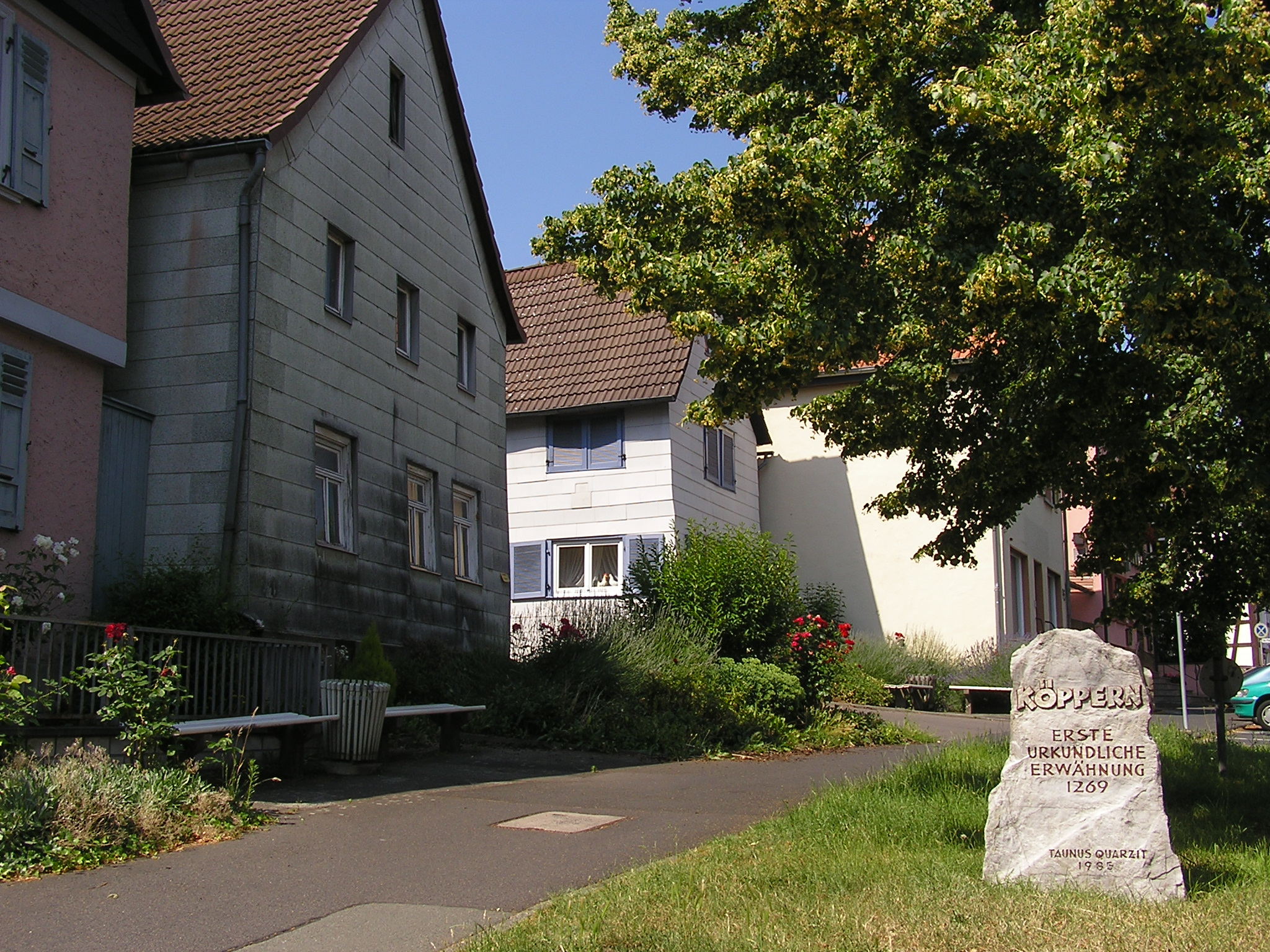 City center of Friedrichsdorf-Köppern with stone donated by the Taunus-Quarzitwerke. Text: Köppern - first documentary reference 1269